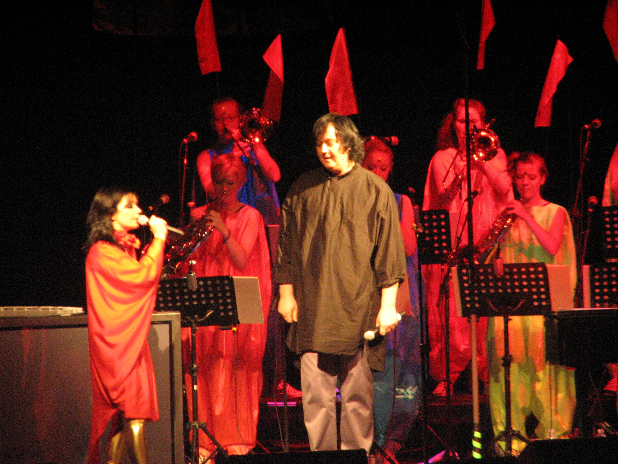 Björk and Antony Hegarty at Radio City Music HallBjörk and Antony Hegarty at Radio City Music Hall 2-May-2007